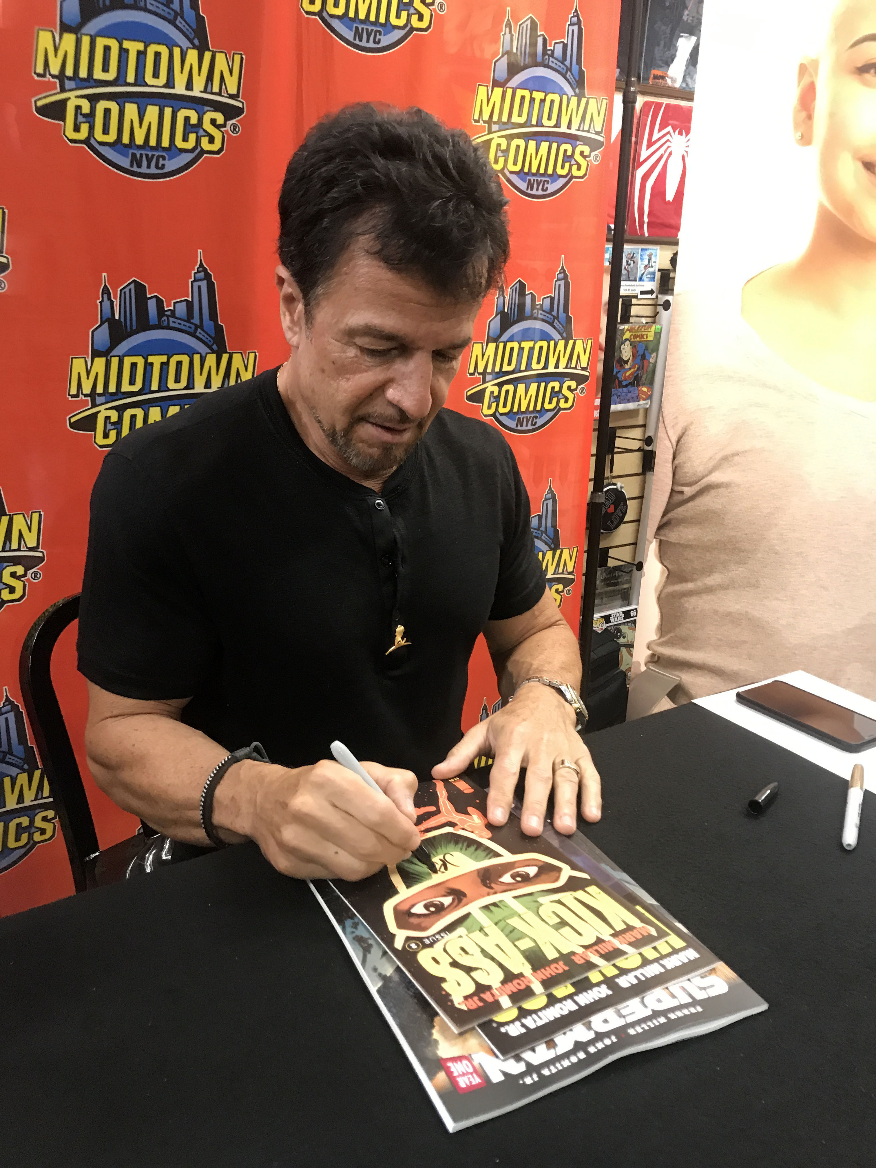 Comics artist John Romita Jr. at a June 20, 2019 book signing for Superman: Year One #1 (August 2019) at Midtown Comics Downtown in Lower Manhattan. In the photo, Romita is signing a copy of Kick-Ass. This photo was created by Luigi Novi. It is not in the public domain, and use of this file outside of the licensing terms is a copyright violation.